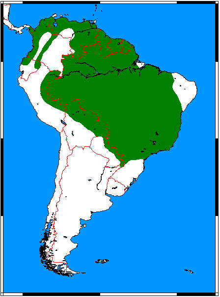 Range map of Bush Dog (Speothos venaticus), made by me with help of Map depending on the range map at IUCN red list.